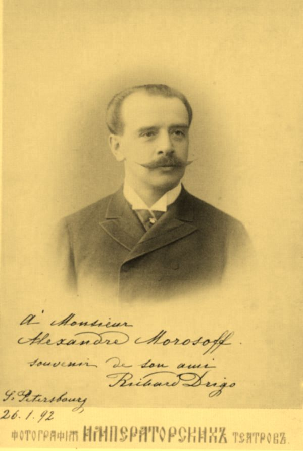 Photograph of Riccardo Eugenio Drigo (1846-1930). Chef d'orchestre of the Imperial Italian Opera of St. Petersburg (1878-1884); Kapellmeister of the St. Petersburg Imperial Ballet (1886-1917); Chef d'orchestre of ballet and Italian opera performances of the Imperial Mariinsky Theatre Orchestra of St. Petersburg (1886-1917). Noted composer of ballet music, conductor, and pianist.